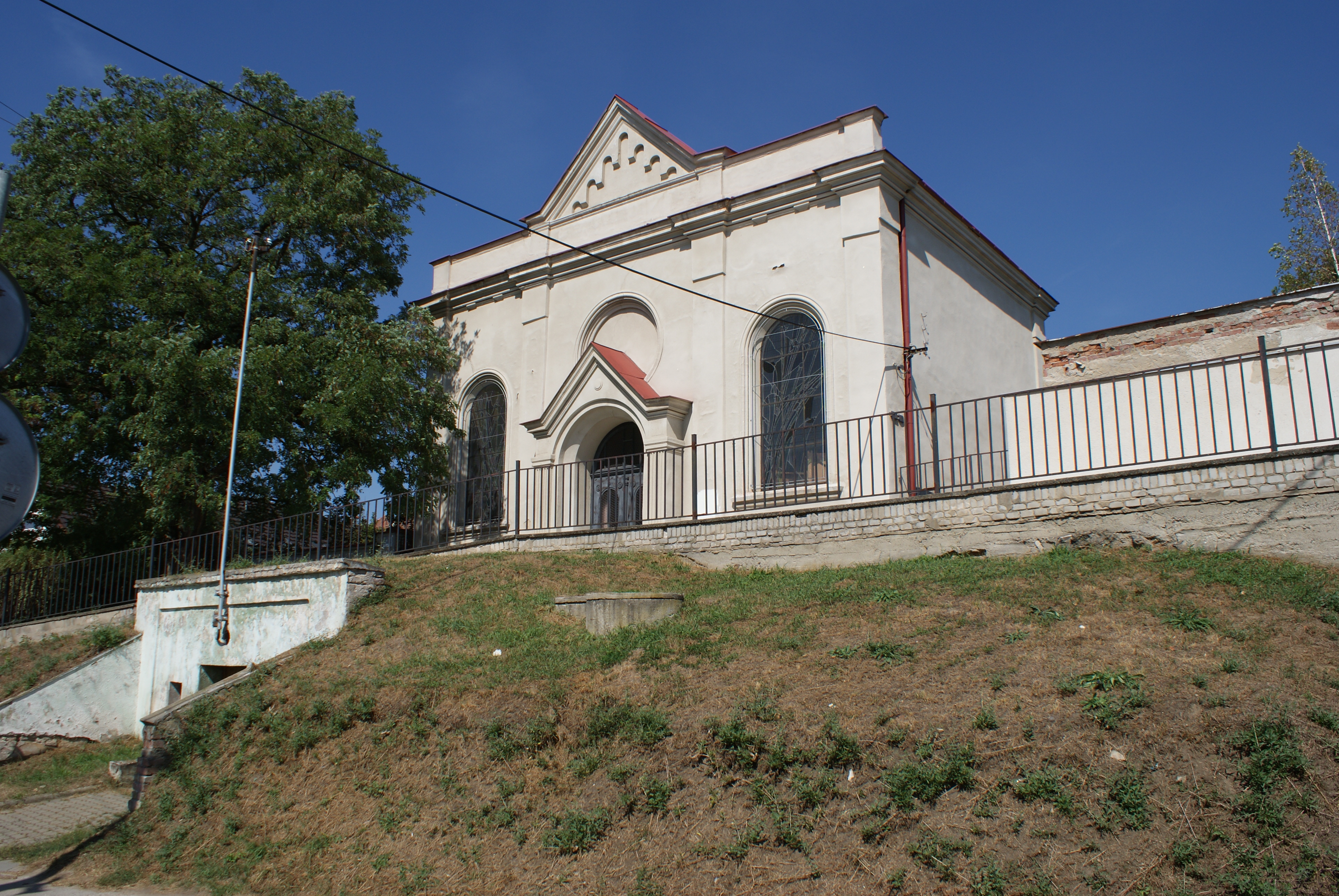 Jewish cemetery in Bzenec, Hodonín district, Czech Republic.